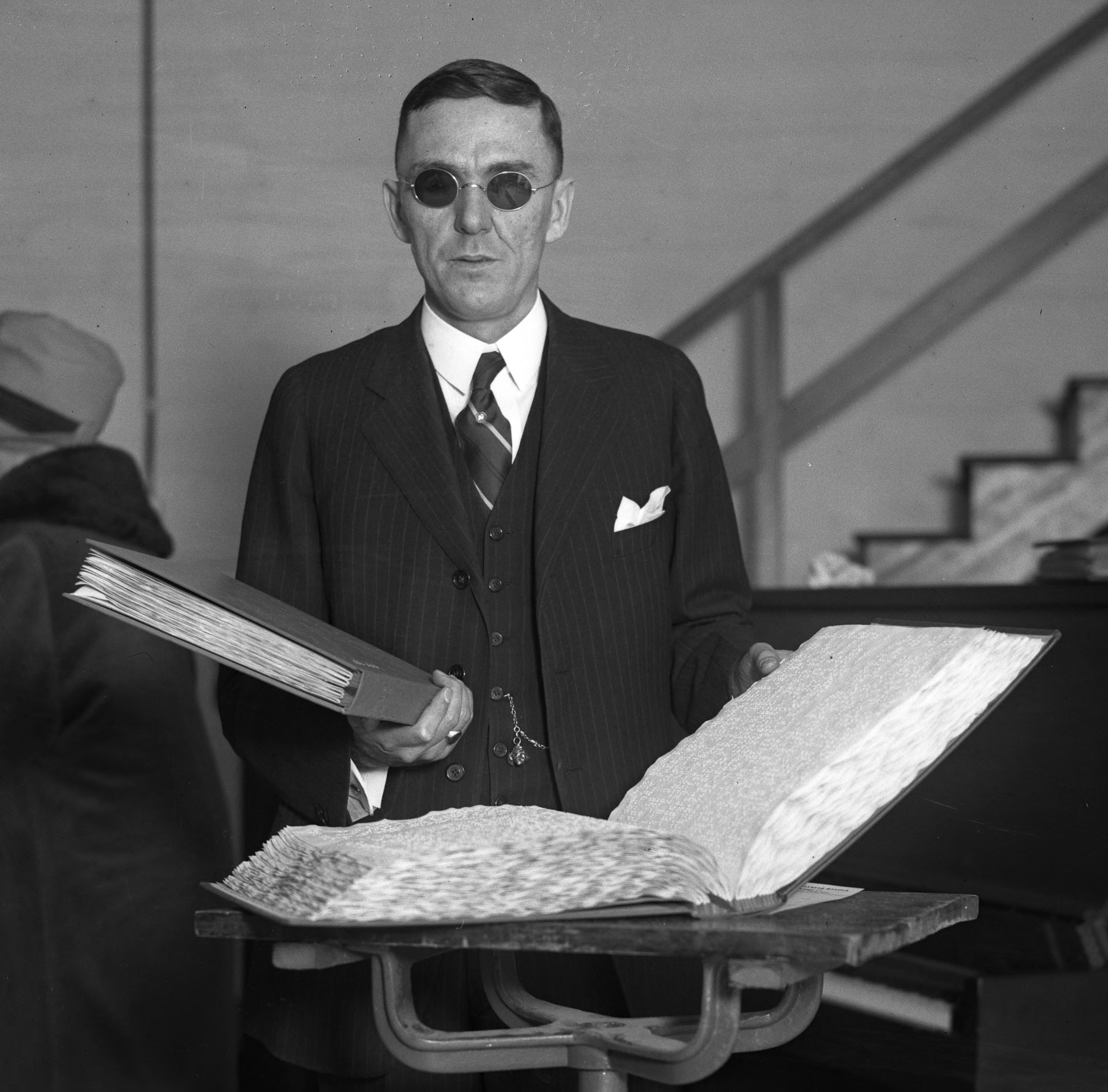 J. Robert Atkinson, founder of Universal Braille Press, holding two Braille books in Los Angeles, Calif., 1929